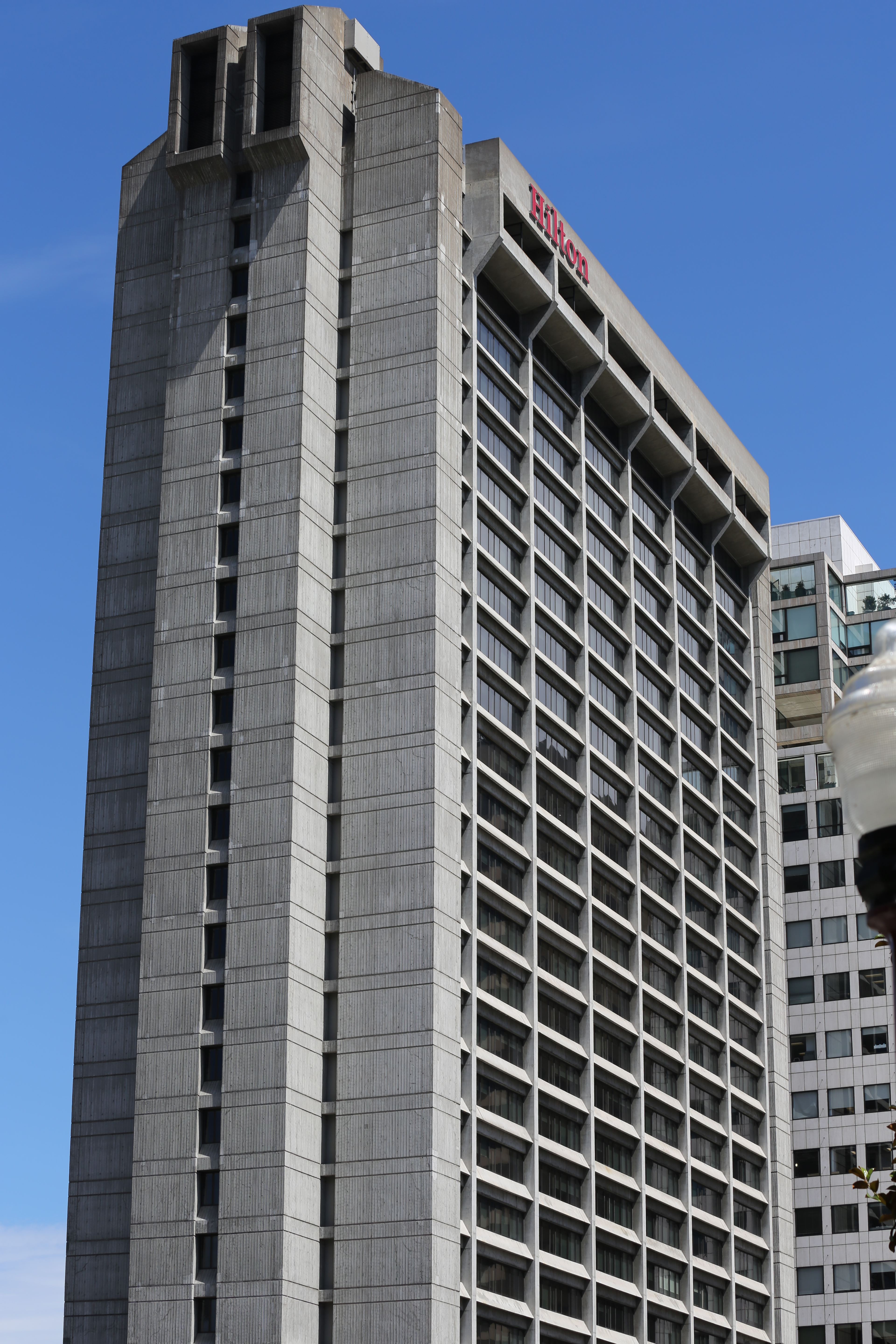 Hilton San Francisco Financial District (TK)